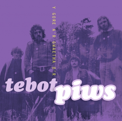 Artwork for the Album Y Gore A'r Gwaetha / The Best And Worst by Tebot Piws